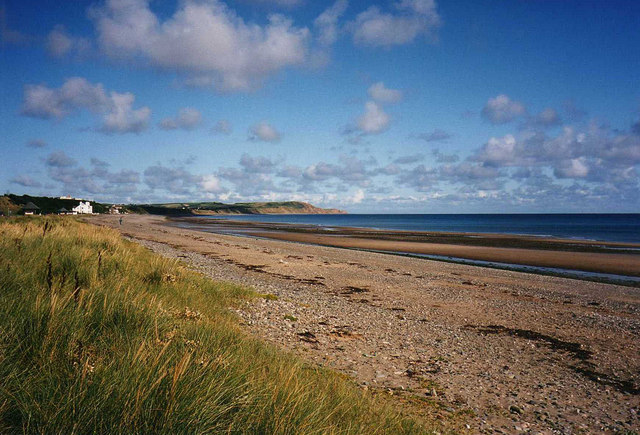 Beach at The Mooragh Looking northwards to the long sweep of beach leading to Shellag Point.